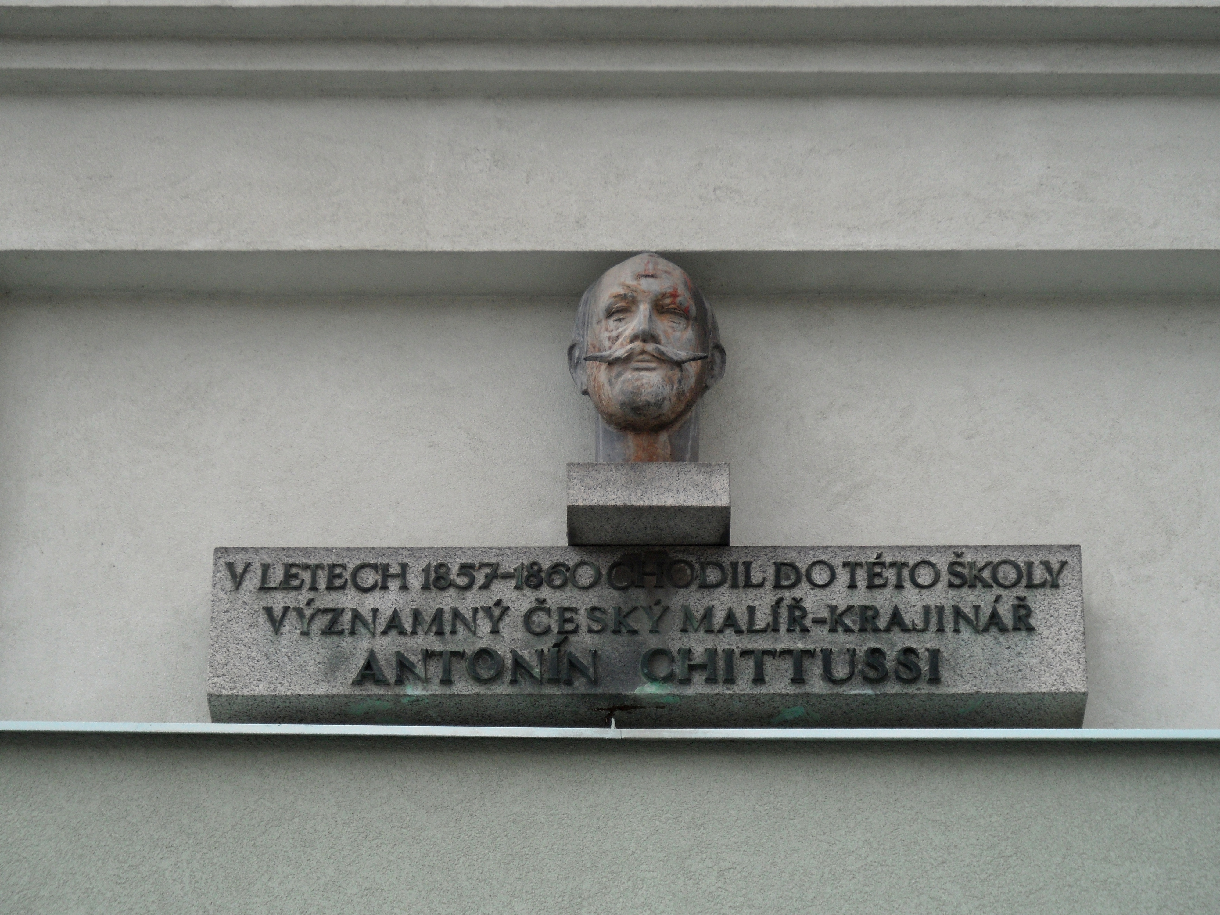 Čáslav, painter Antonín Chittussi: Memorial Plaque (nám. Jana Žižky z Trocnova 182/52). Kutná Hora District, the Czech Republic.